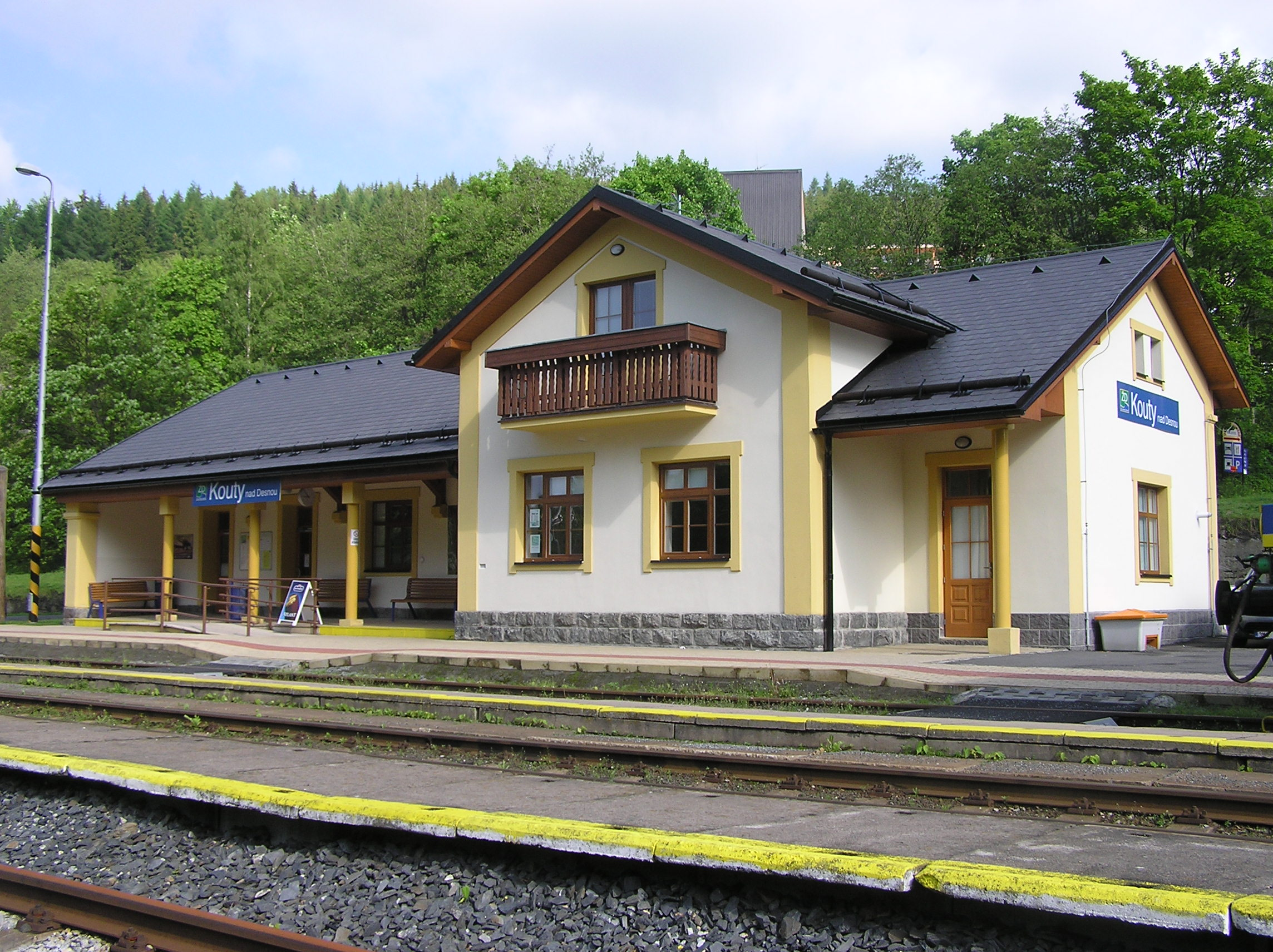 Railway station in the Kouty nad Desnou, Czech Republic Česky: Vlakové nádraží v Koutech nad Desnou, provozovatel Železnice Desná, Veolia Transport a.s.